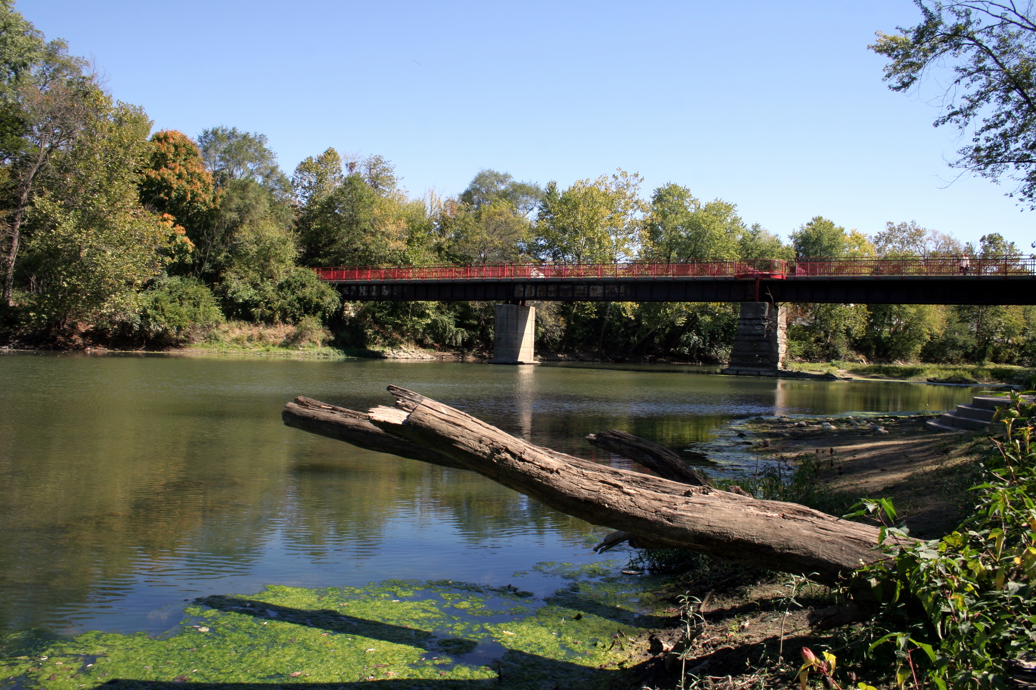 A view from the Indianapolis Art Centers ARTSPARK looking out over the White River, the trestle is the Monon Trail.